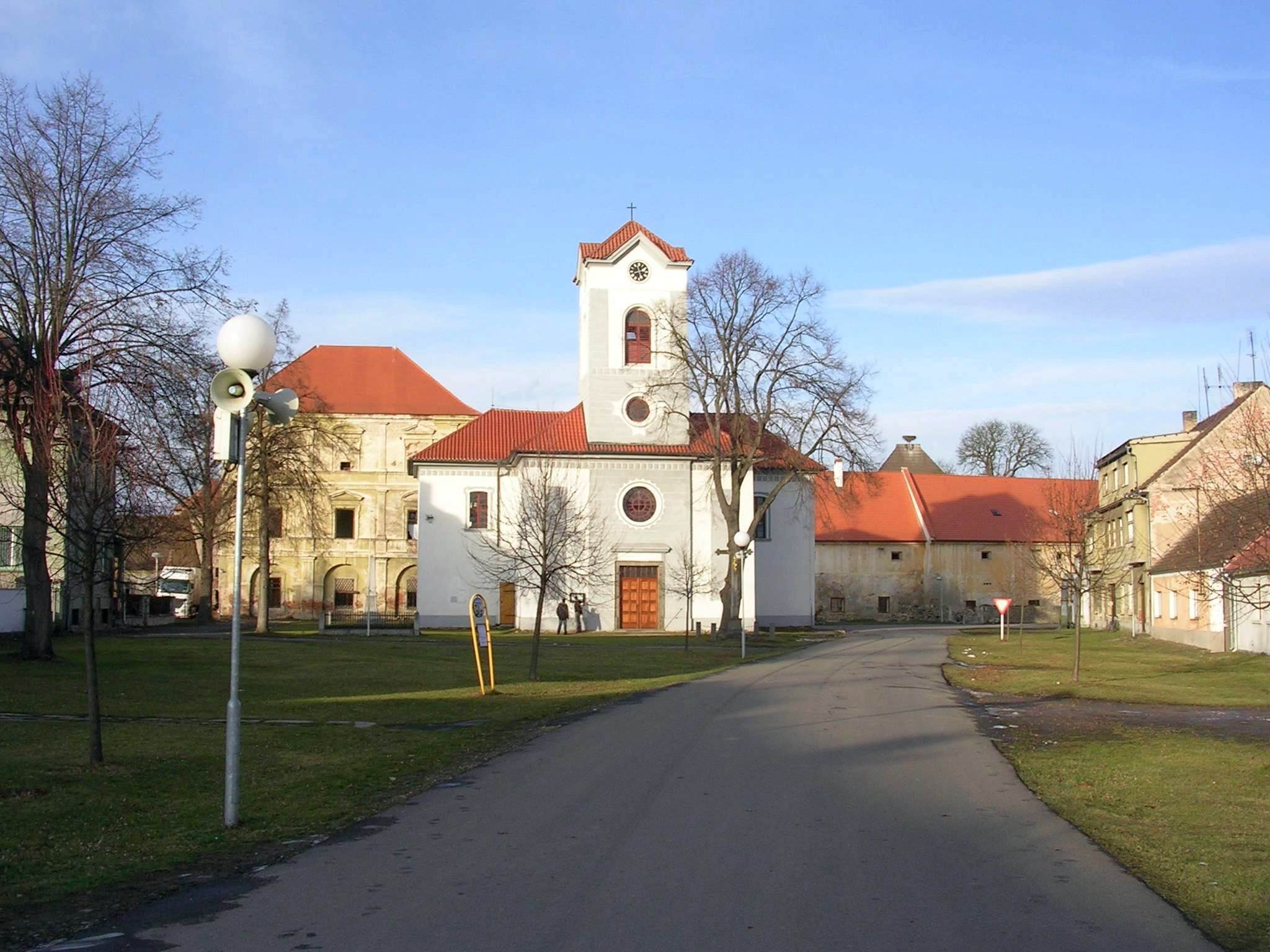 Kestřany, the Czech Republic.